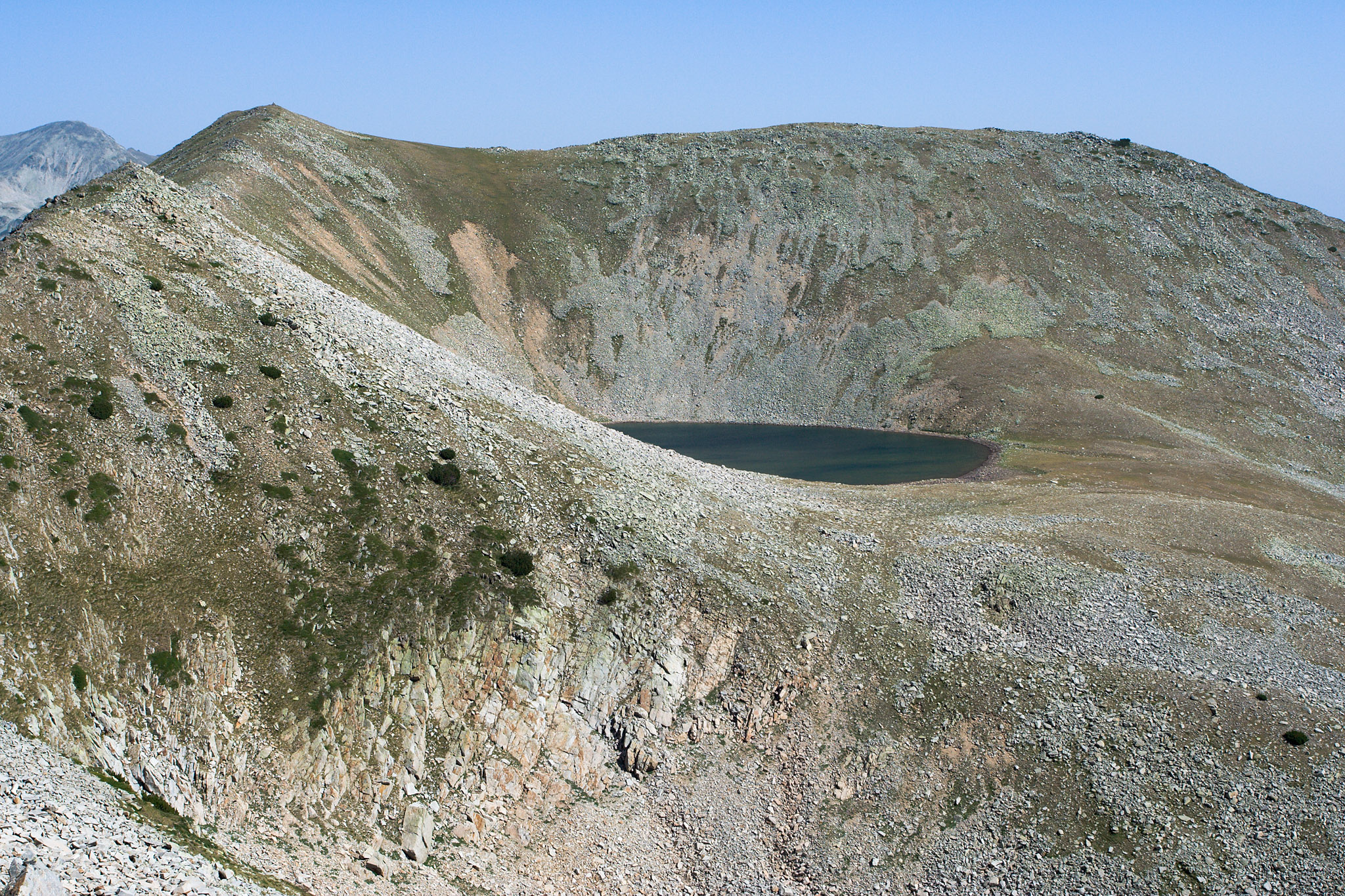 Gorno Breznishko ezero in Pirin mountain, Bulgaria